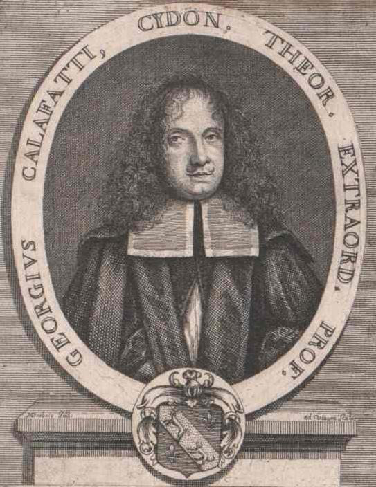 Georgios Kalafatis (Greek: Γεώργιος Καλαφάτης), (Italian: Giorgio Calafatti), (Latin: Georgius Calafattus; ca. 1652 – ca. 9 February 1720) was a Greek professor of theoretical and practical medicine who was largely active in Padua and Venice in the 17th century Italian Renaissance.